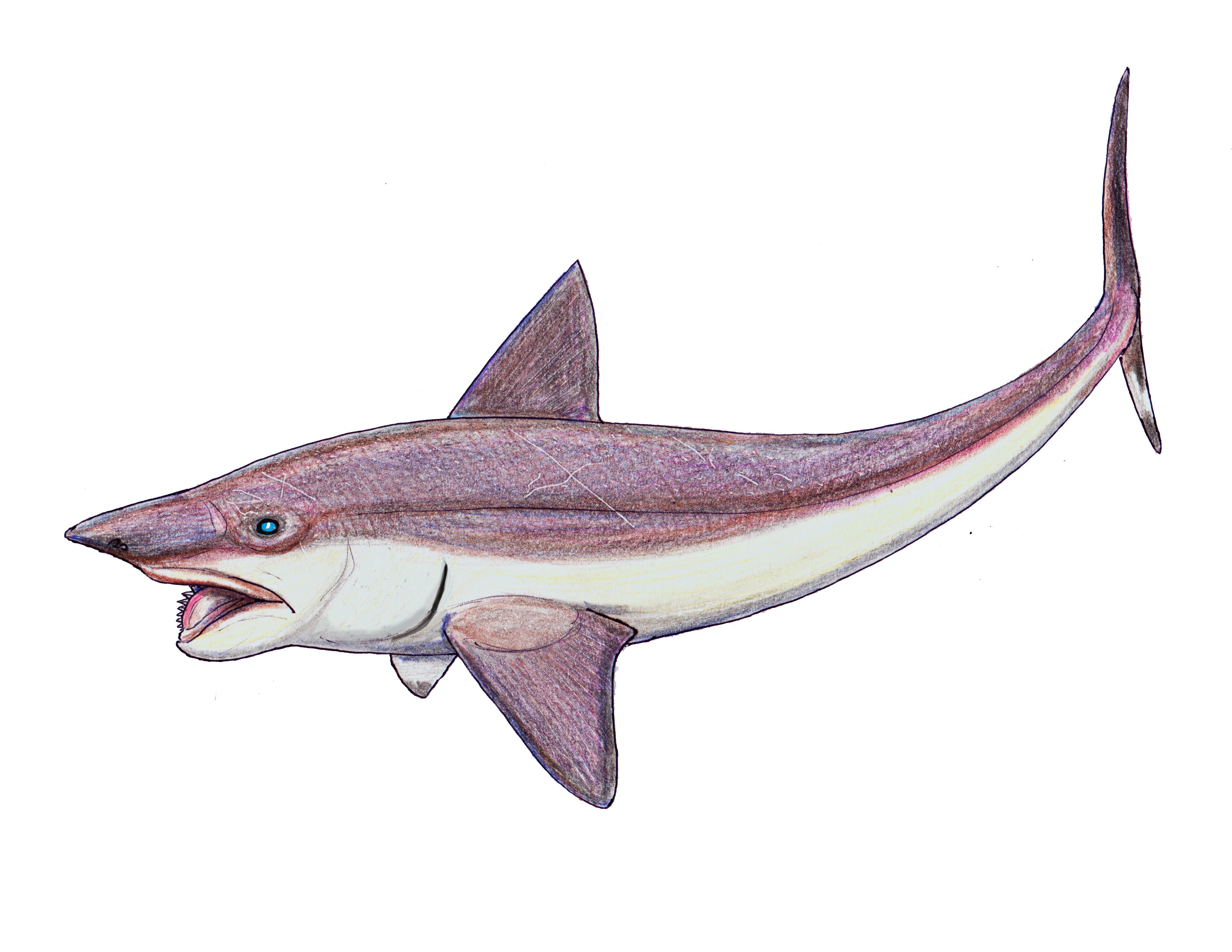 Reconstruction of Helicoprion bessonovi from Early Permian of Middle Ural